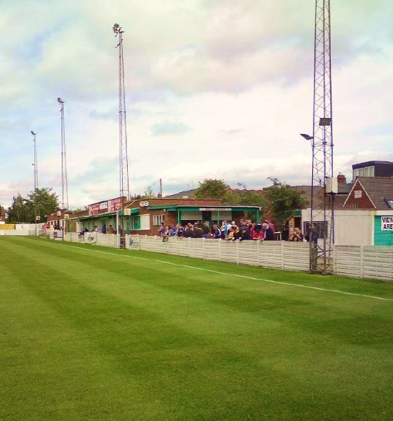 A photo of the Bromsgrove Rovers clubhouse